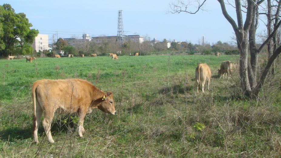 Kochi University farming plant